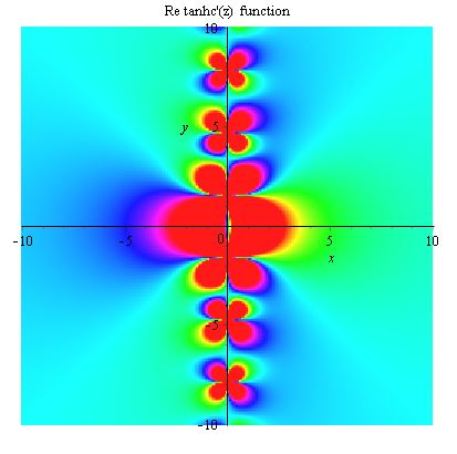 Tanhc'(z) Re plot